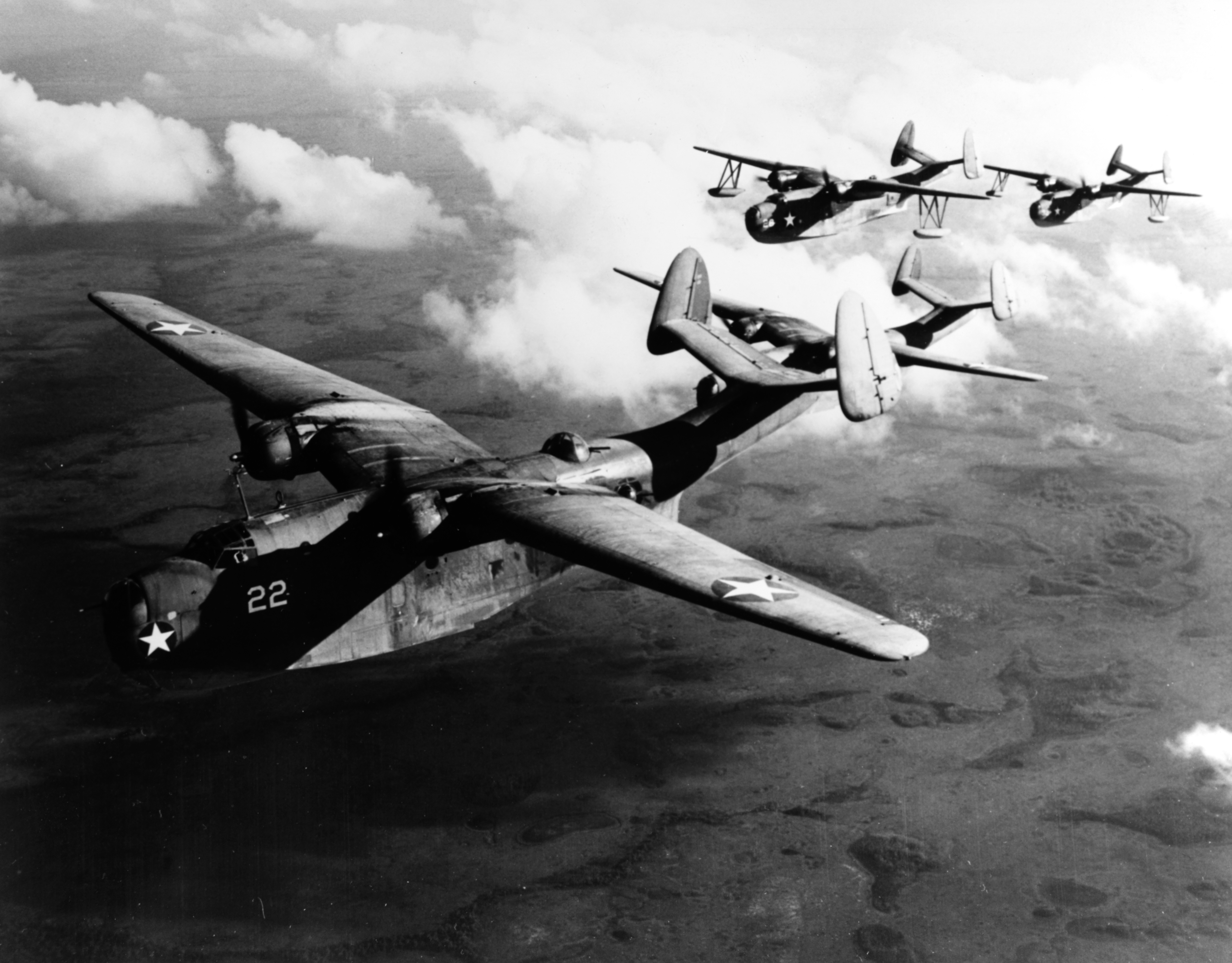 Four U.S. Navy Martin PBM Mariners in flight over the U.S. East Coast, circa in 1943. The two PBM-1s are without wing floats, the two PBM-3s have wing floats. The given date of 7 October 1943 has to be incorrect, as the photo already appeard in the U.S. Navy Naval Aviation News on 15 October 1943.